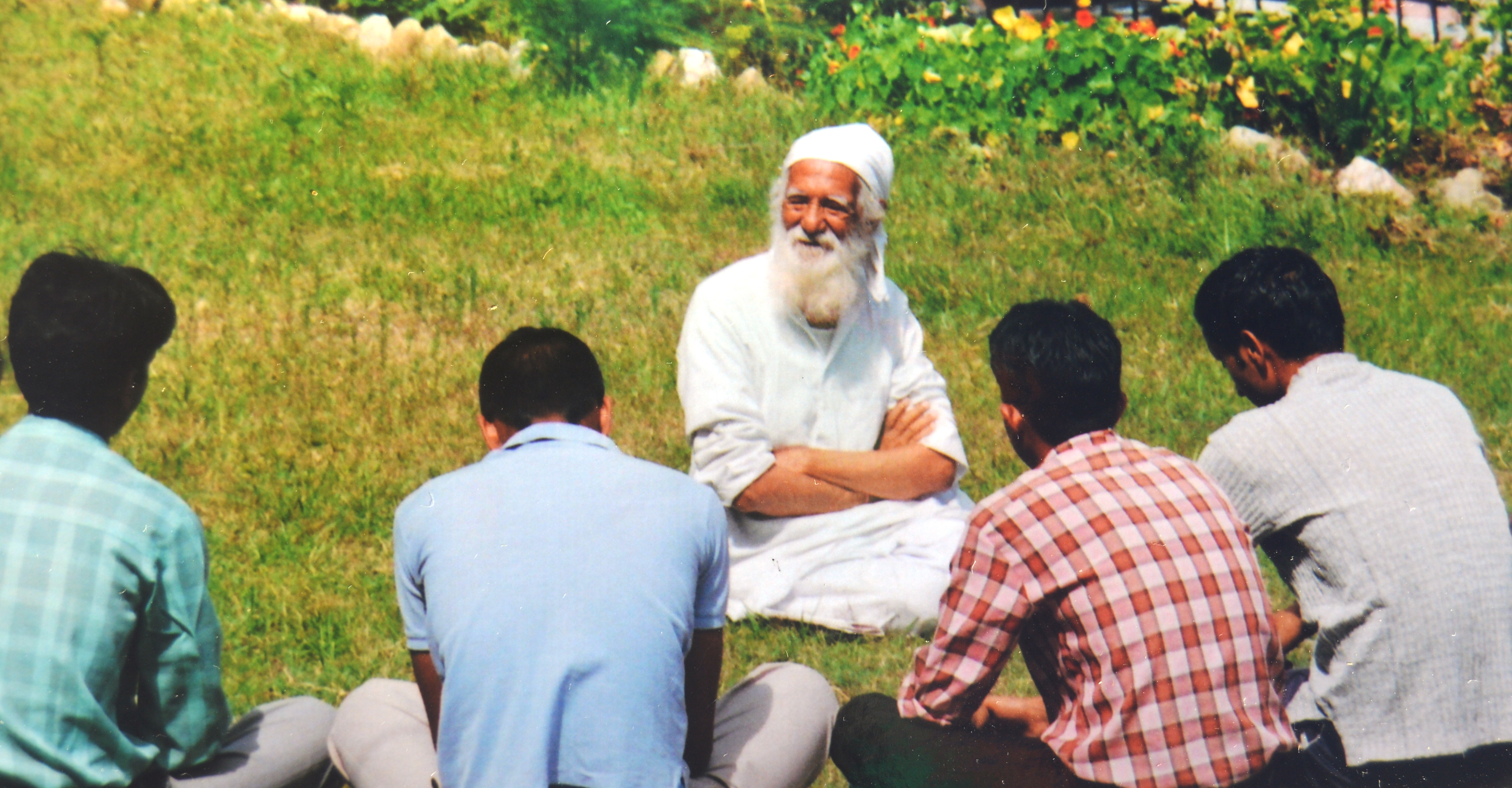 India. Photo R. S. Pirta